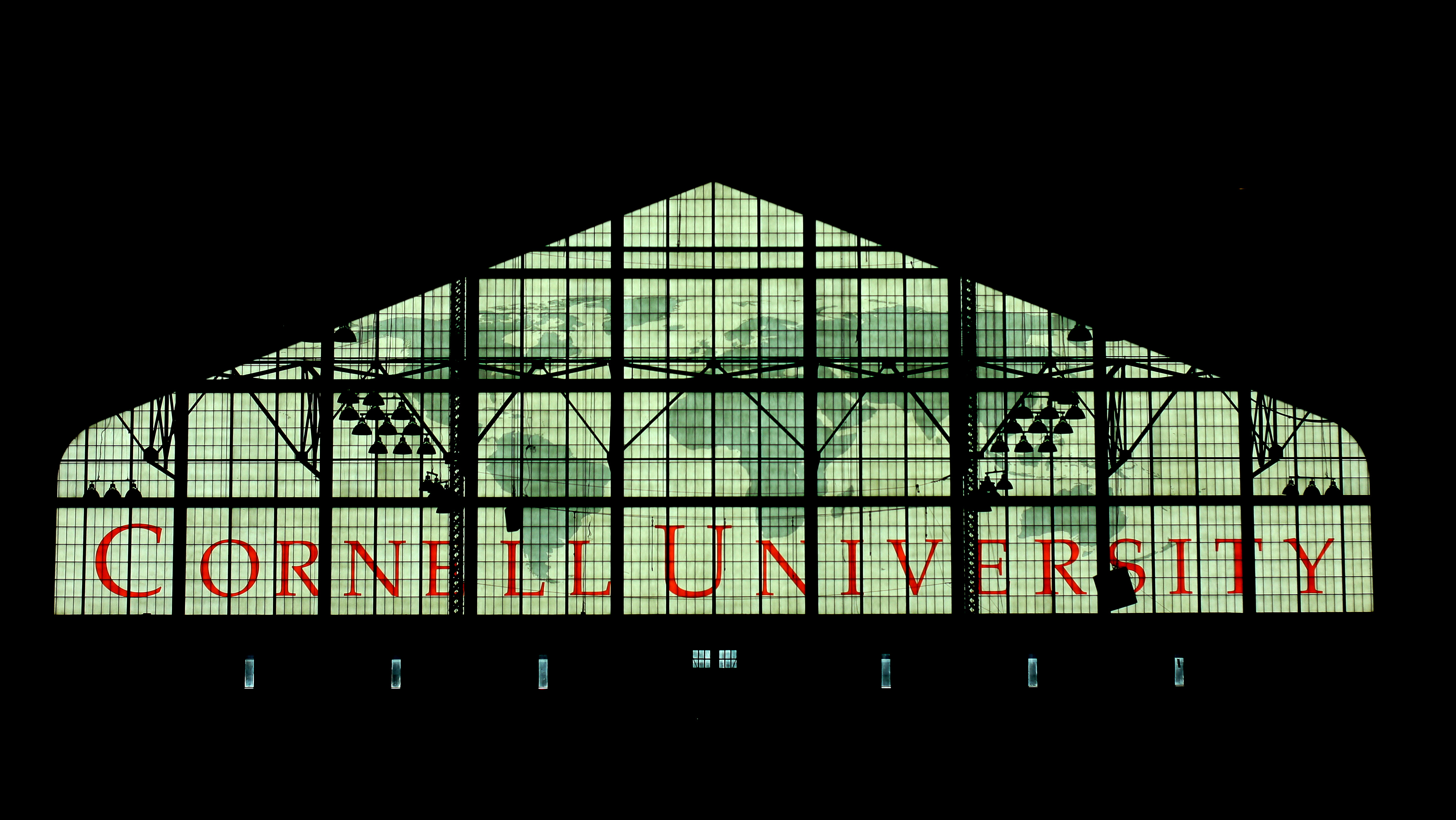 Windows of Barton Hall (inside view), Cornell University